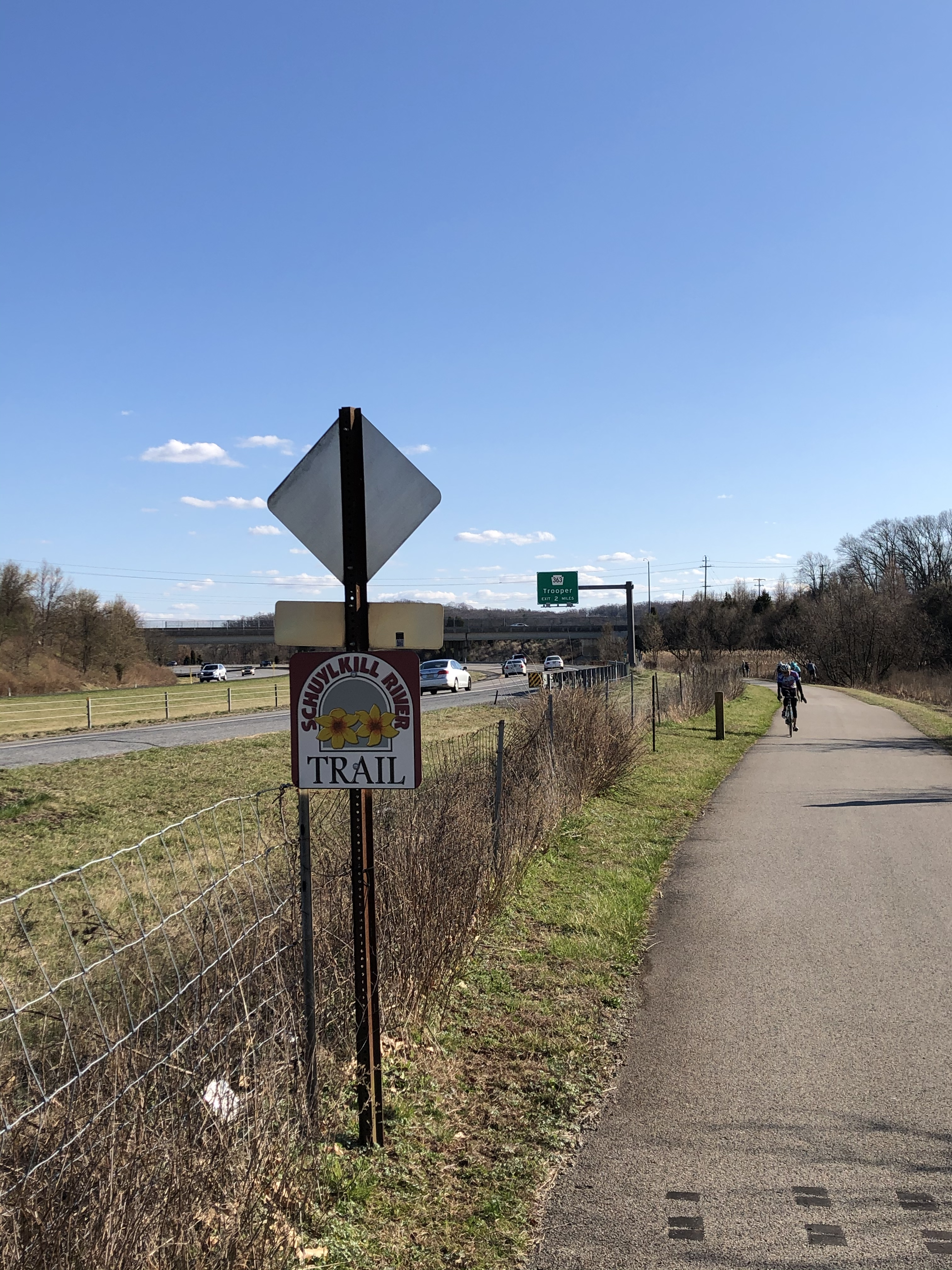 US 422 Schuylkill River Trail